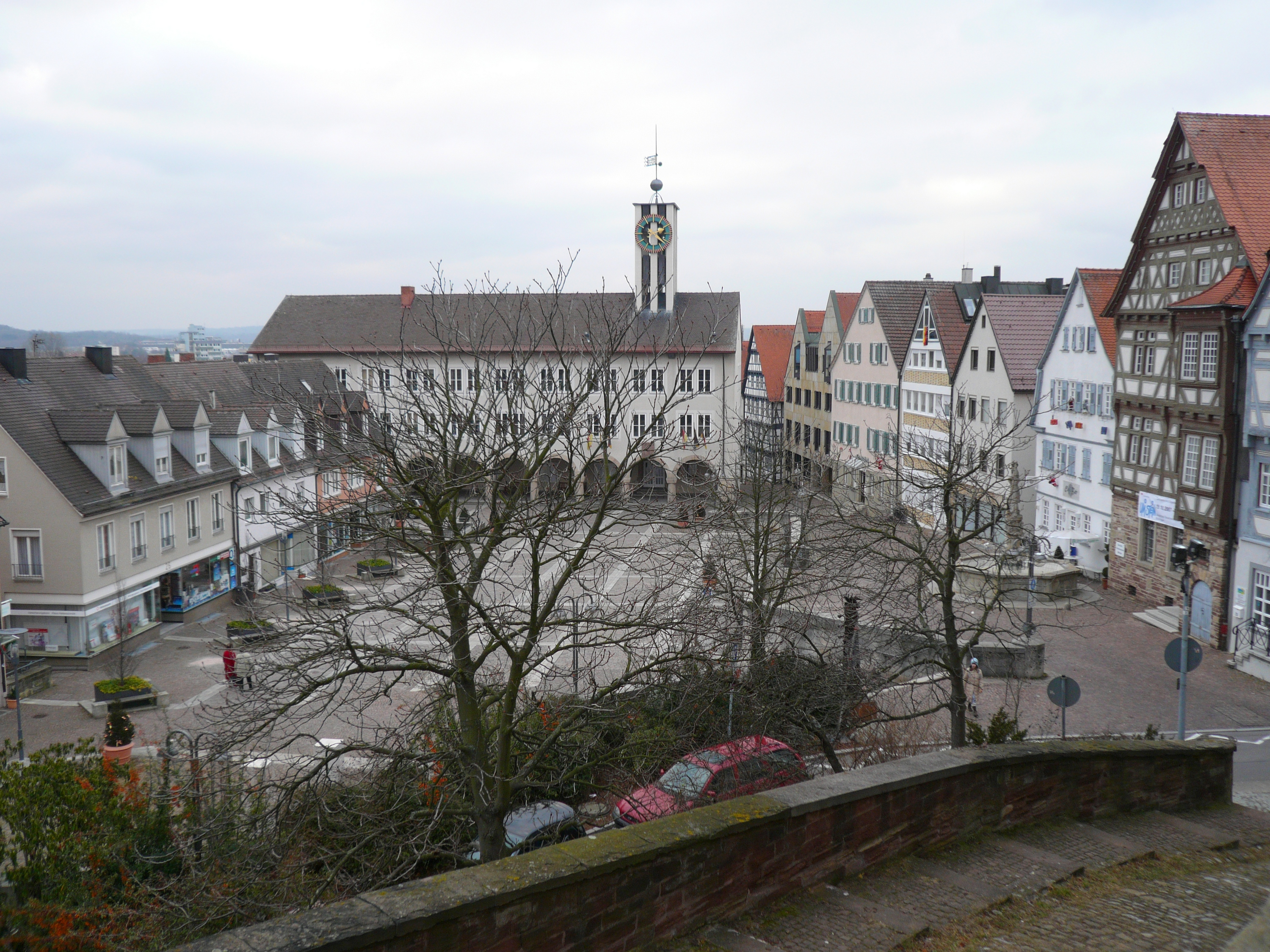 Central place of Boeblingen